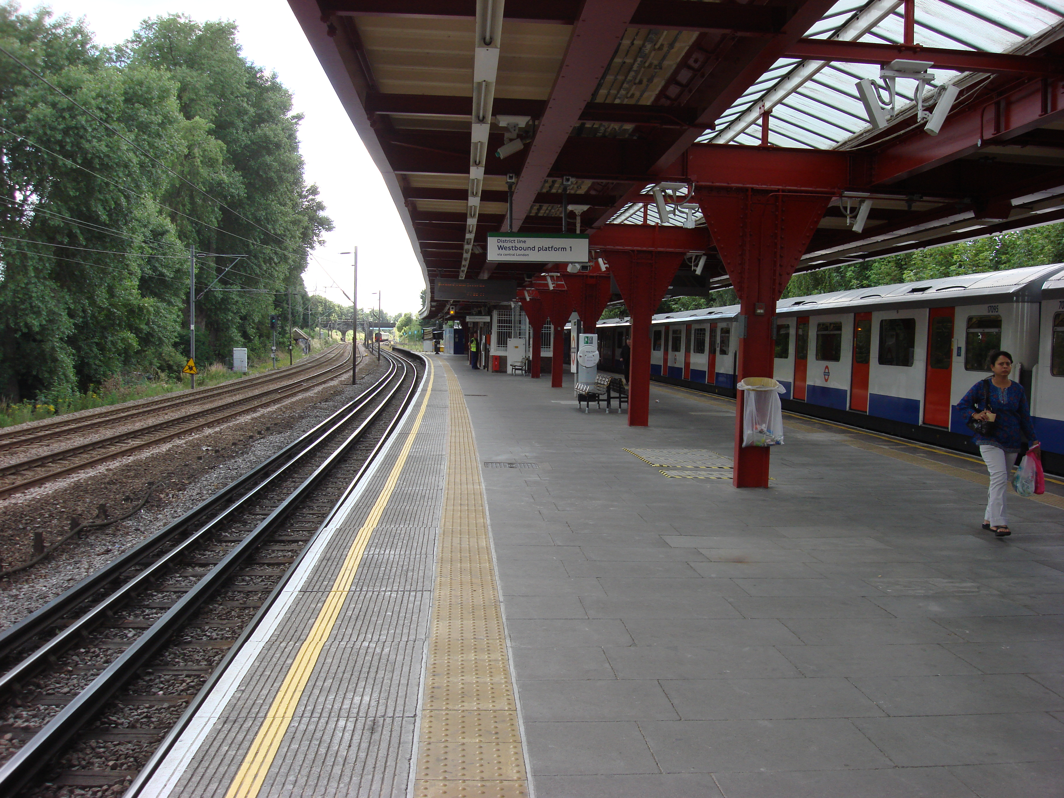 Upminster Bridge tube station, westbound platform 1